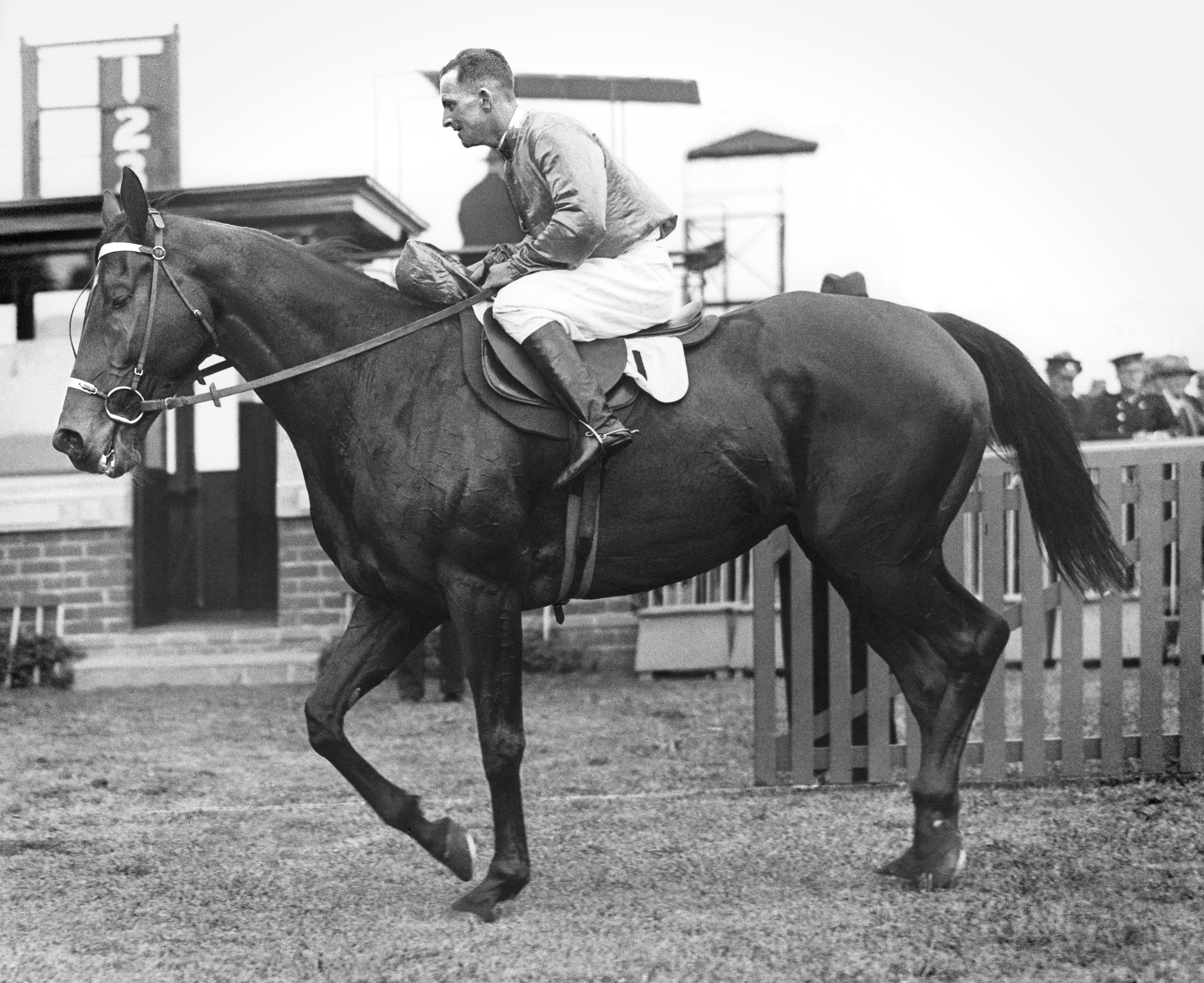 1930 VATC Futurity Stakes photo high resolution scan from original & digitally optimised